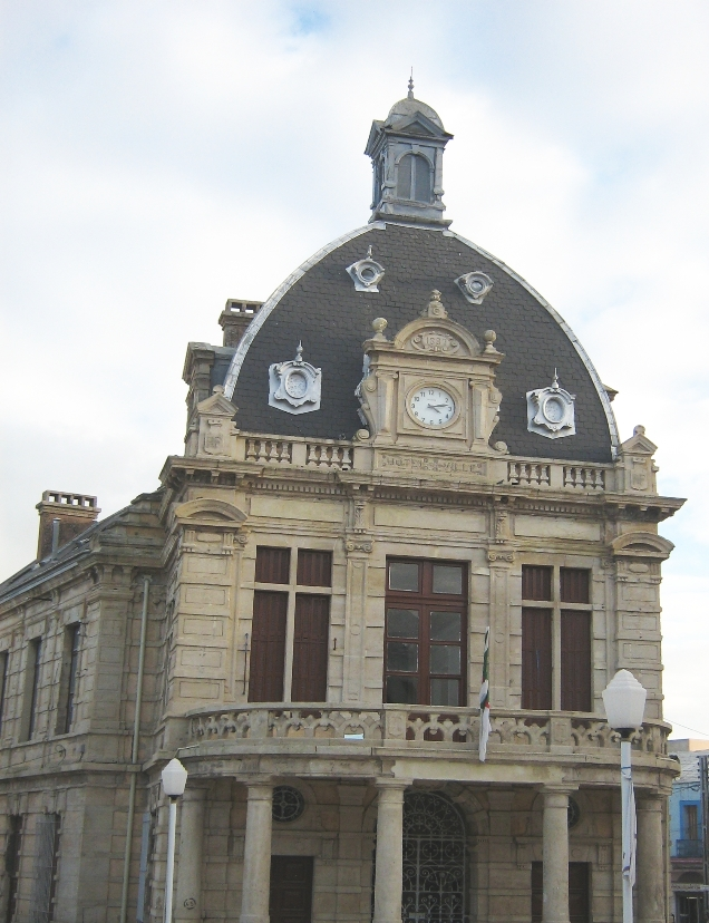 Former city hall of , now used as the municipal museum